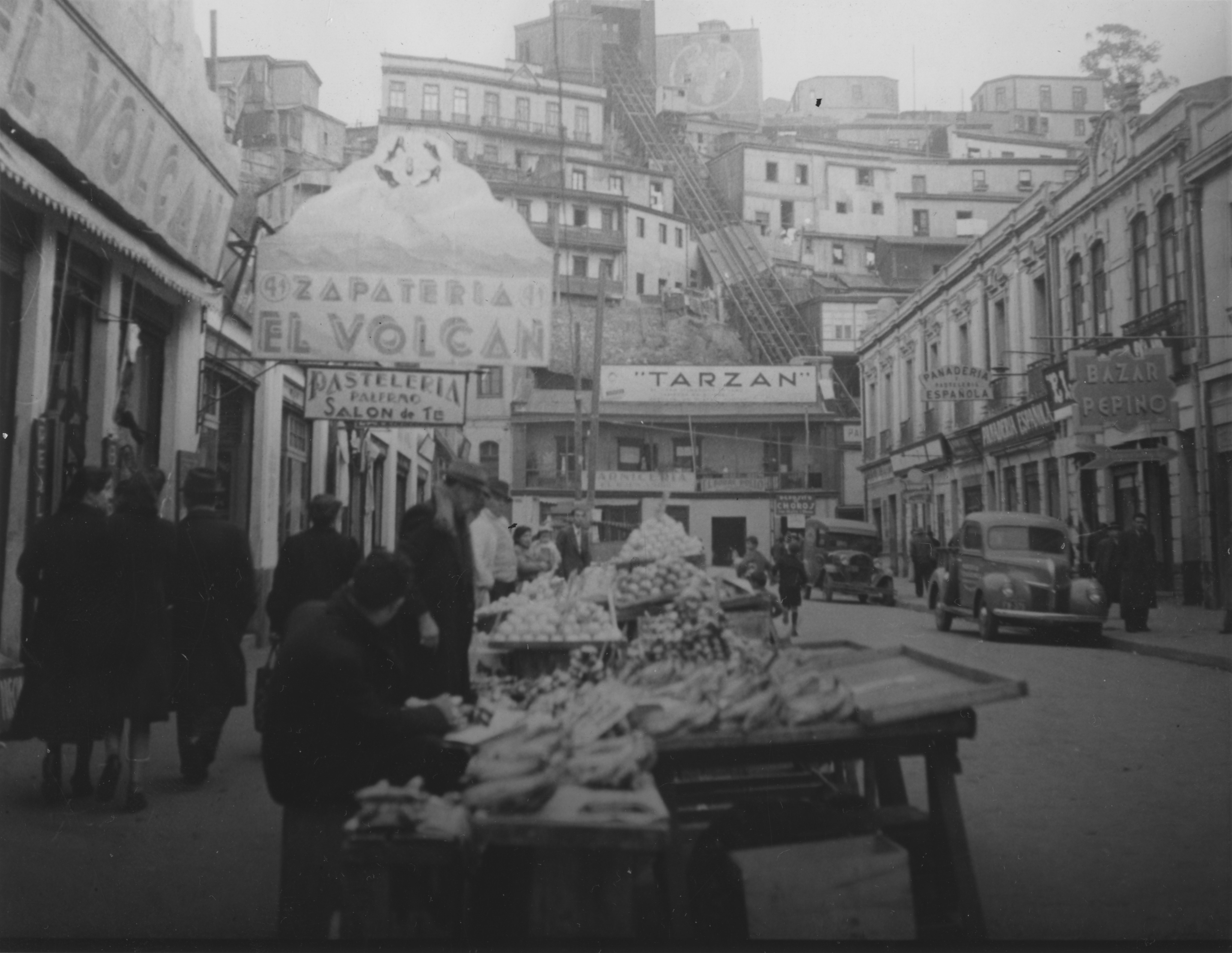 View in Valparaiso, showing the Lecheros funicular railways, called "ascensores" in Chile.